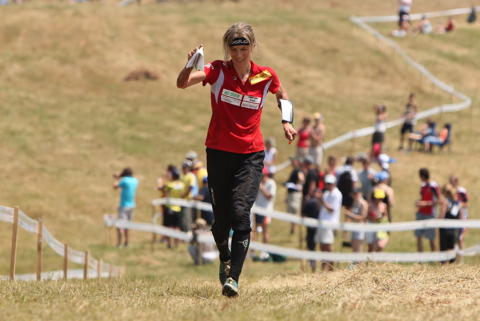 Simone Niggli (SUI) at European Orienteering Championships 2010